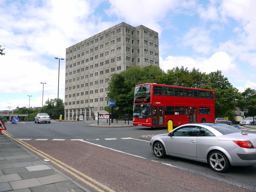 Sandyford House from Sandyford Road